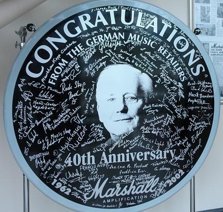 40th Anniversary Present to Jim Marshall.